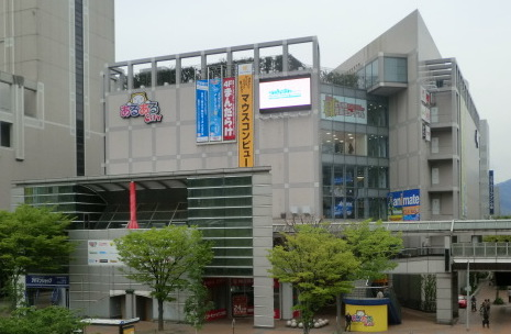 ”Aruaru City”(Center of Manga,animation) in Kitakyushu,Japan.